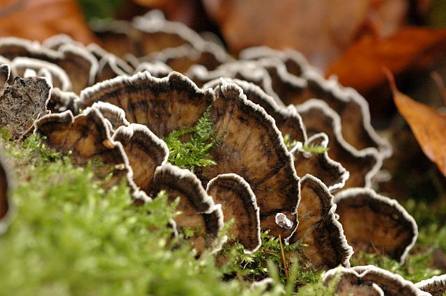 Bjerkandera adusta from Commanster, Belgium. The determination of the species shown in this picture has been verified.